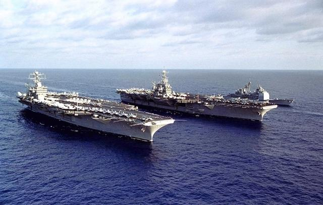 The forward-deployed aircraft carriers USS Nimitz (CVN-68), left, and USS Independence (CV-62), center, perform an underway turn-over Sept. 25, 1997, while steaming off the coast of Japan.